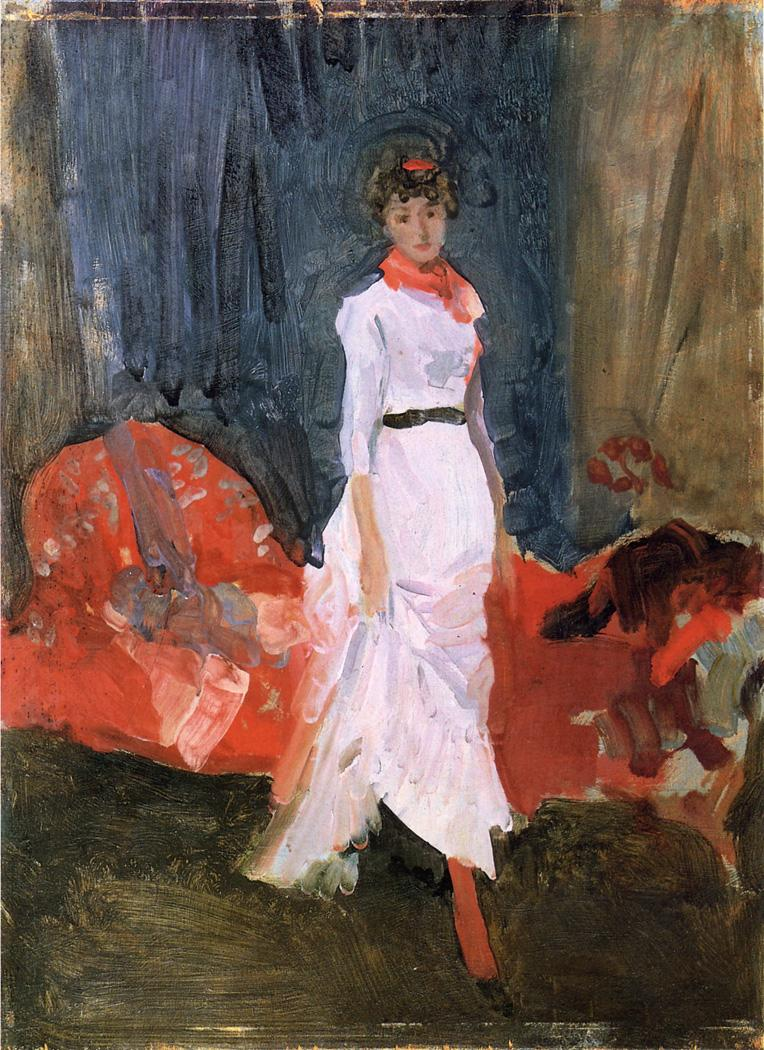 "Arrangement in Pink, Red and Purple," oil on canvas, by the American-born artist James Abbott McNeill Whistler. 12.01 in. x 8.98 in. Courtesy of the Cincinnati Art Museum. Image courtesy of The Athenaeum.